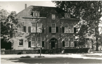 Berg 2 Huize Erica te Nuenen